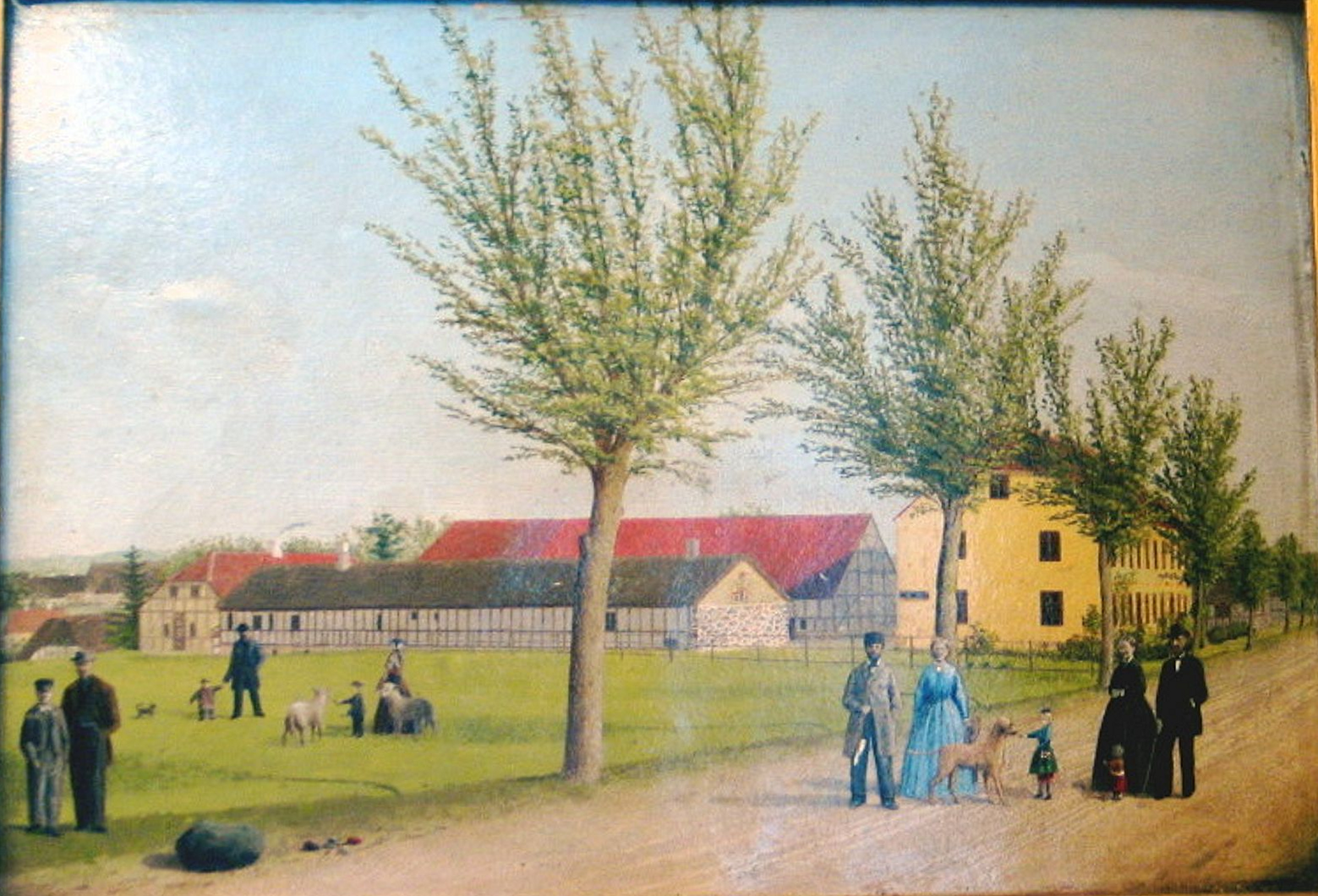 This painting was used in the Danish book Gjedved Friseminarium 1862 - Gjedved Statsseminarium 1962, 100 års jubilæumsskrift, which celebrated 100 years of teacher education in Gedved, depicted on page 32. The painting shows the school's founder, Peter Bojsen in the center with a large pipe.